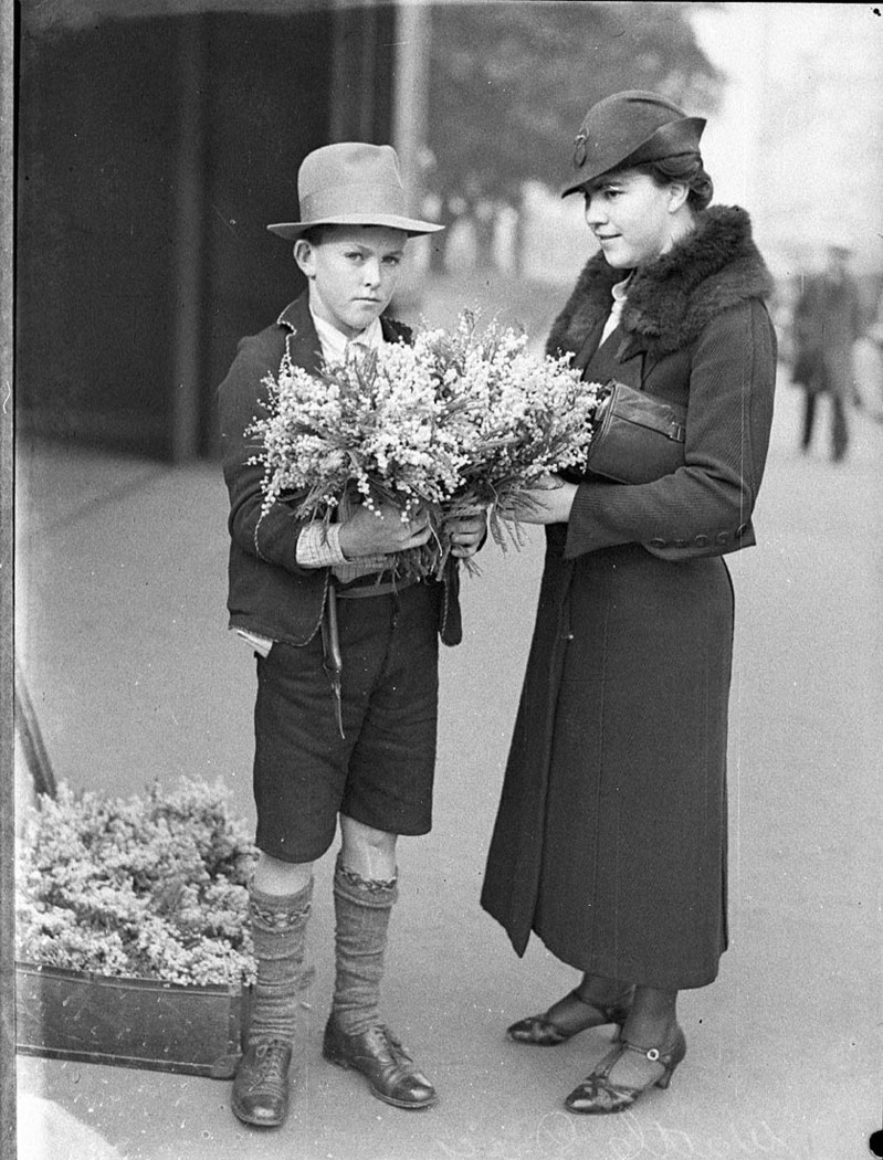 Wattle Day